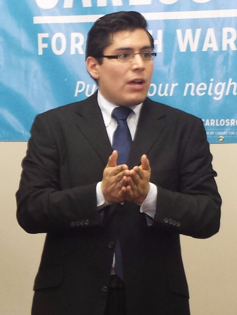 Carlos Rosa speaking to supporters during his 2015 campaign for Chicago alderman